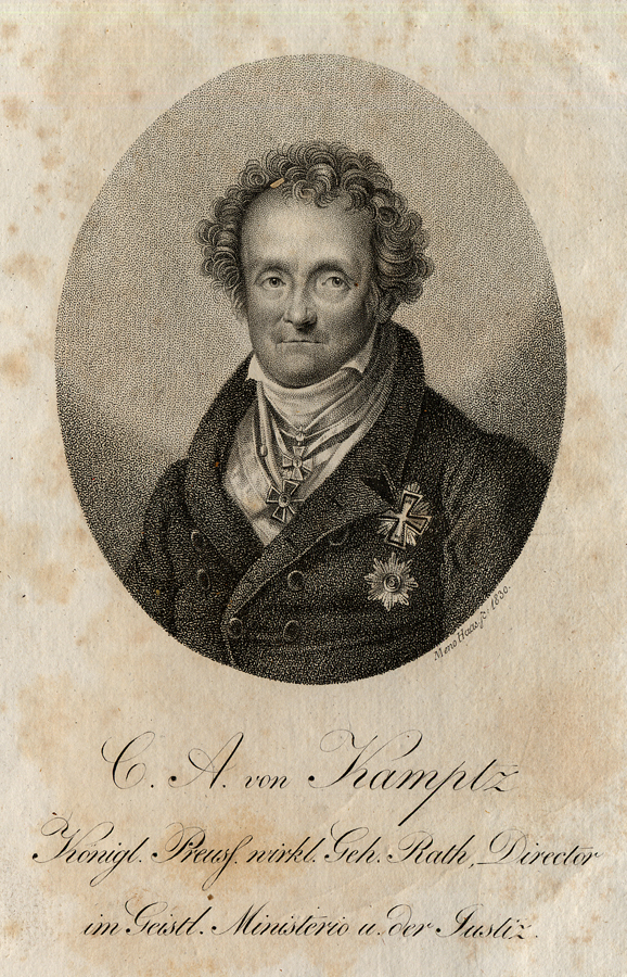 C. A. von Kamptz, Königl. Preuss. wirkl. Geh. Rath, Direktor im Geistl. Ministerio u. der Justiz, 1830 engraving by Meno Haas from: Johann Georg Krünitz: Oeconomische Encyclopädie, oder allgemeines System der Land- Haus- und Staats-Wirthschaft. Band 151. Berlin: Pauli, 1830. Frontispiz